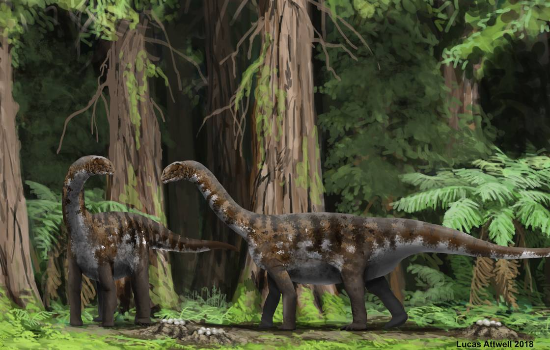 Ohmdenosaurus liasicus, restoration of a pair of adult specimens of a Toarcian Forest